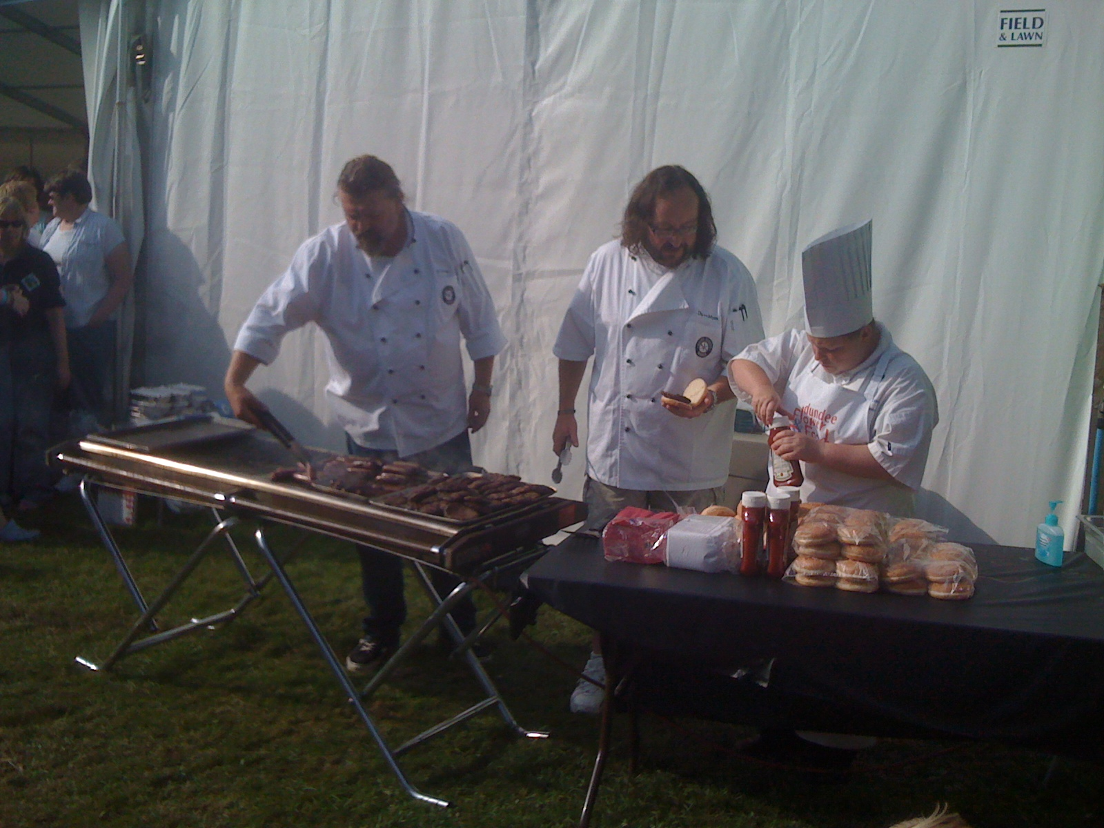 The Hairy Bikers at the 2010 Dundee Food and Flower Festival